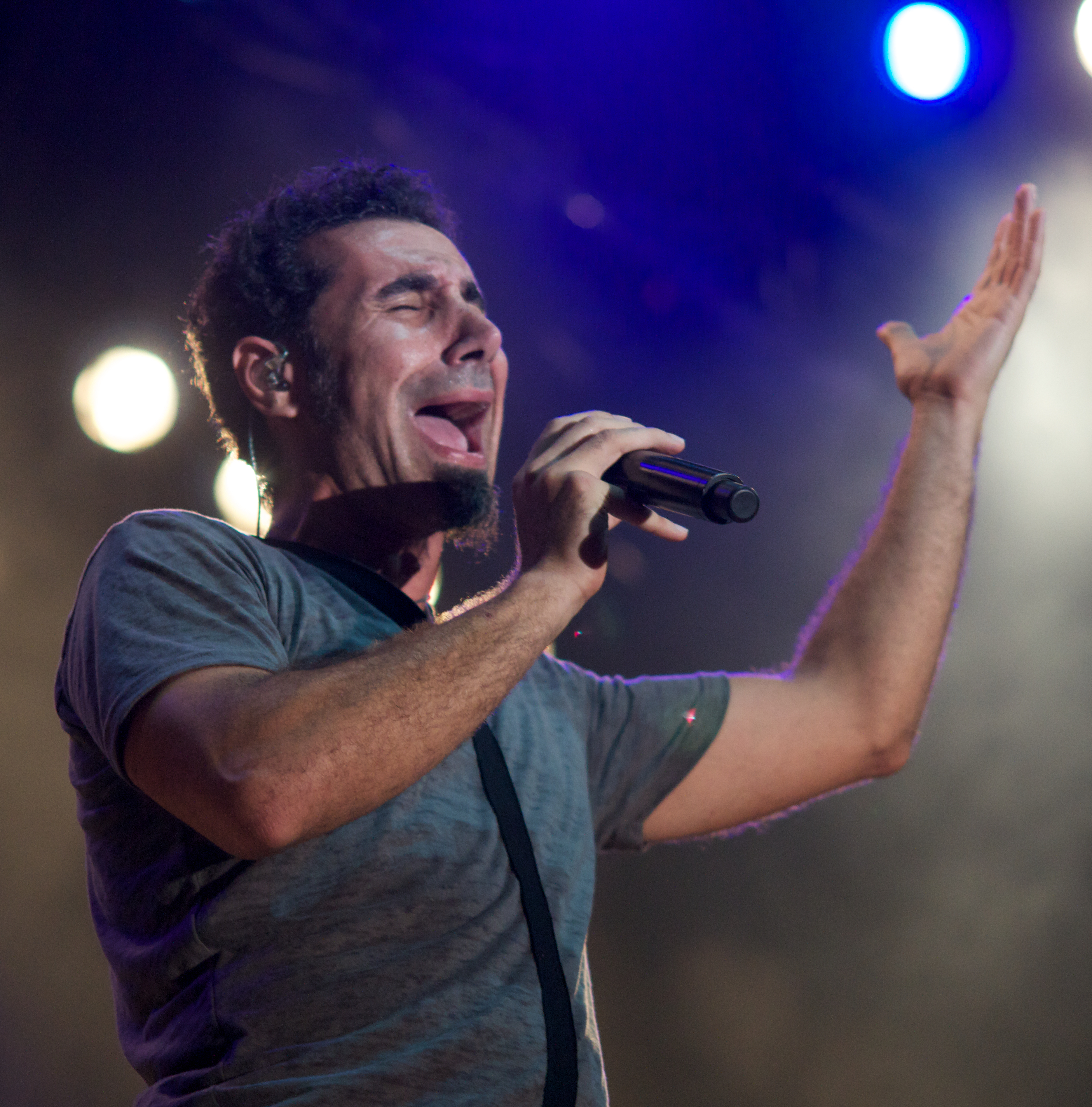 A cropped image of Serj Tankian's image for use on Armenians page.